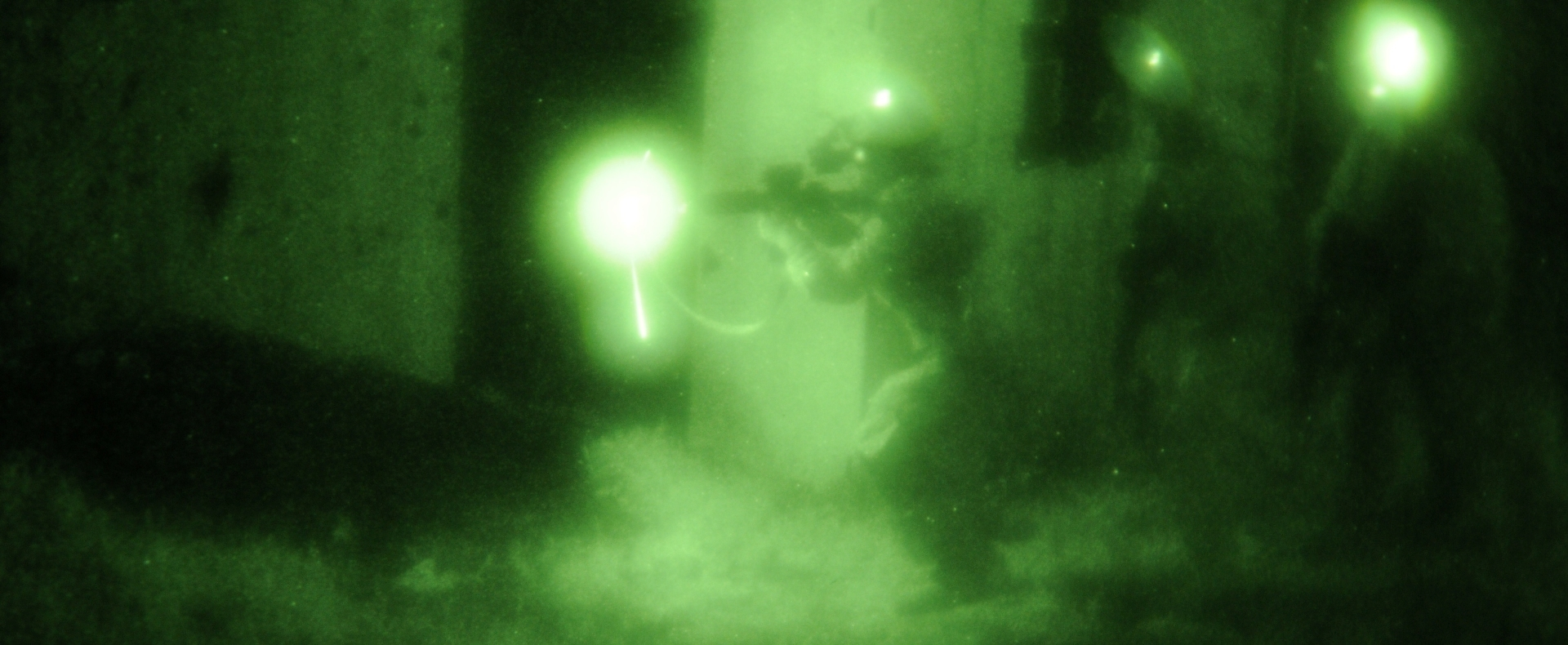 Soldiers from 2nd Battalion, 151st Infantry Regiment, Indiana Army National Guard, perform a night assault at Camp Atterbury Joint Maneuver Training Center Sept. 21, during Bold Quest 2011. Bold Quest is a Joint Staff lead coalition combat assessment exercise to test the interoperability of target identification systems of member nations to reduce friendly fire incidents.